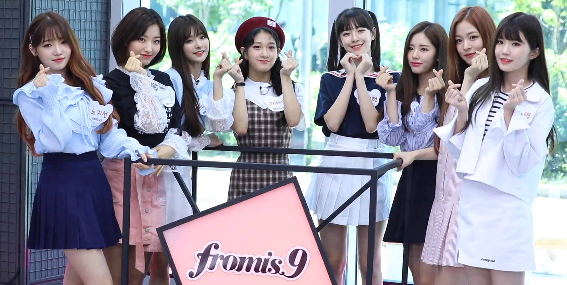 Fromis 9 at a recording of TBS Fact in Star